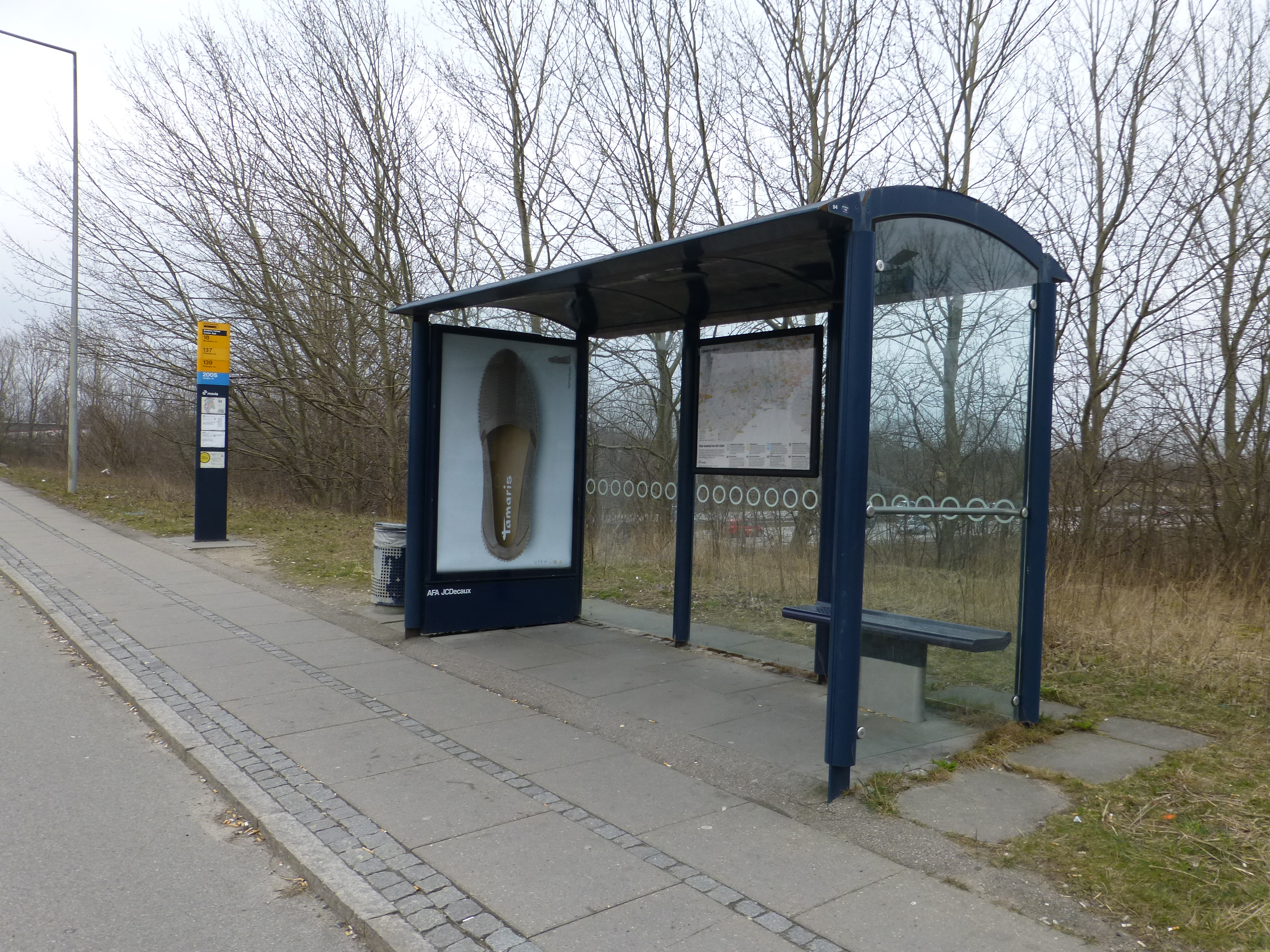 Movia bus stop on Avedøre Havnevej at Center Syd in Hvidovre in Copenhagen.